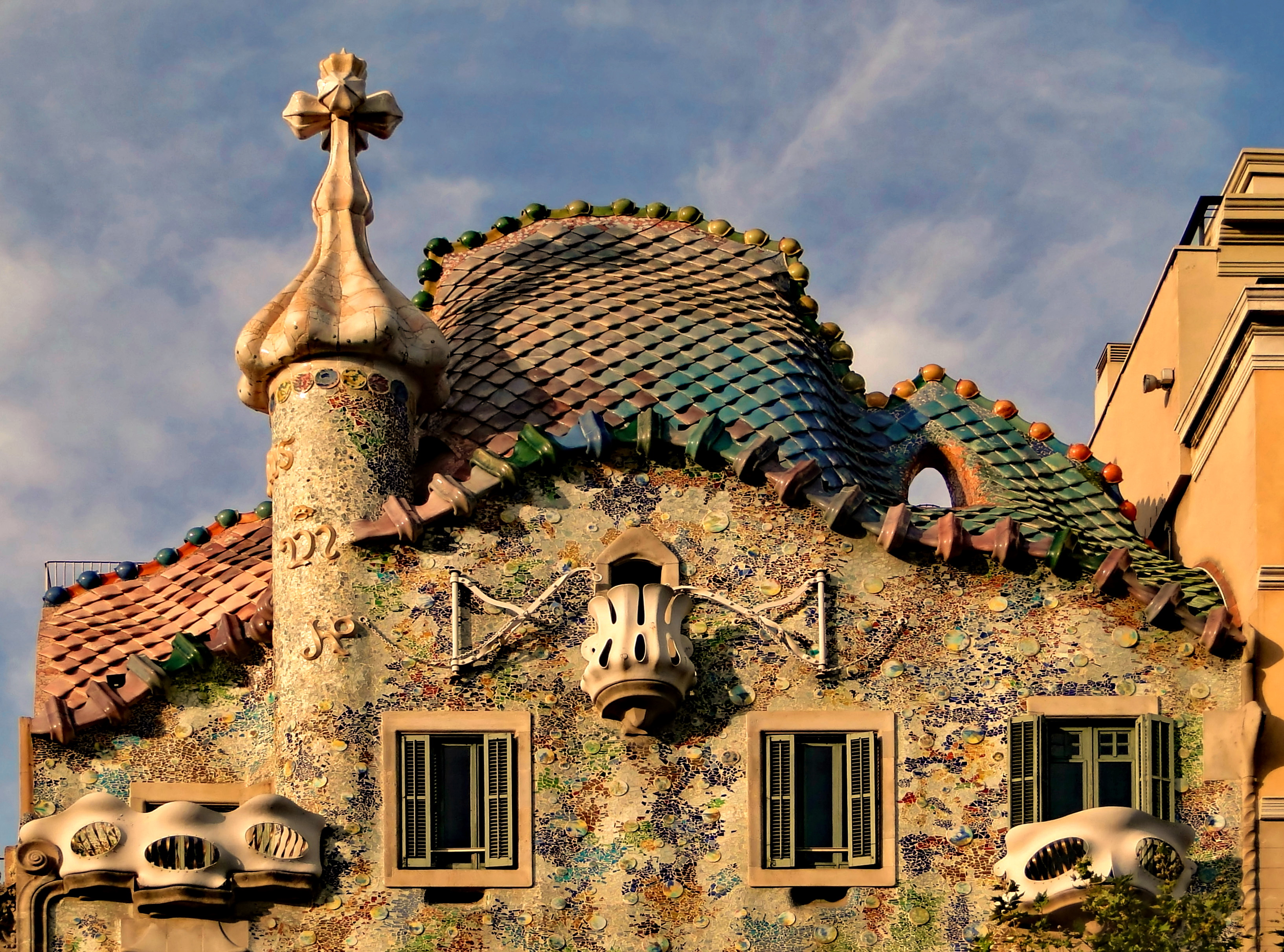 Top part of the facade of Casa Batlló designed by Antoni Gaudi between 1904 and 1906, Barcelona, Spain